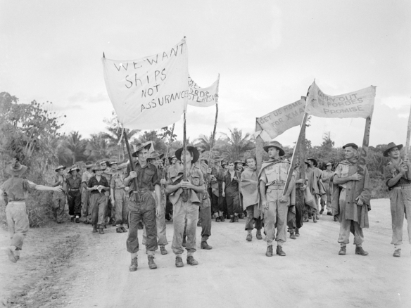 Australian War Memorial (AWM) catalog number 124202. Long-serving Australian military personnel at Morotai protesting about delays in their repatriation to Australia and demobilisation. 4,500 men took part in the protest.